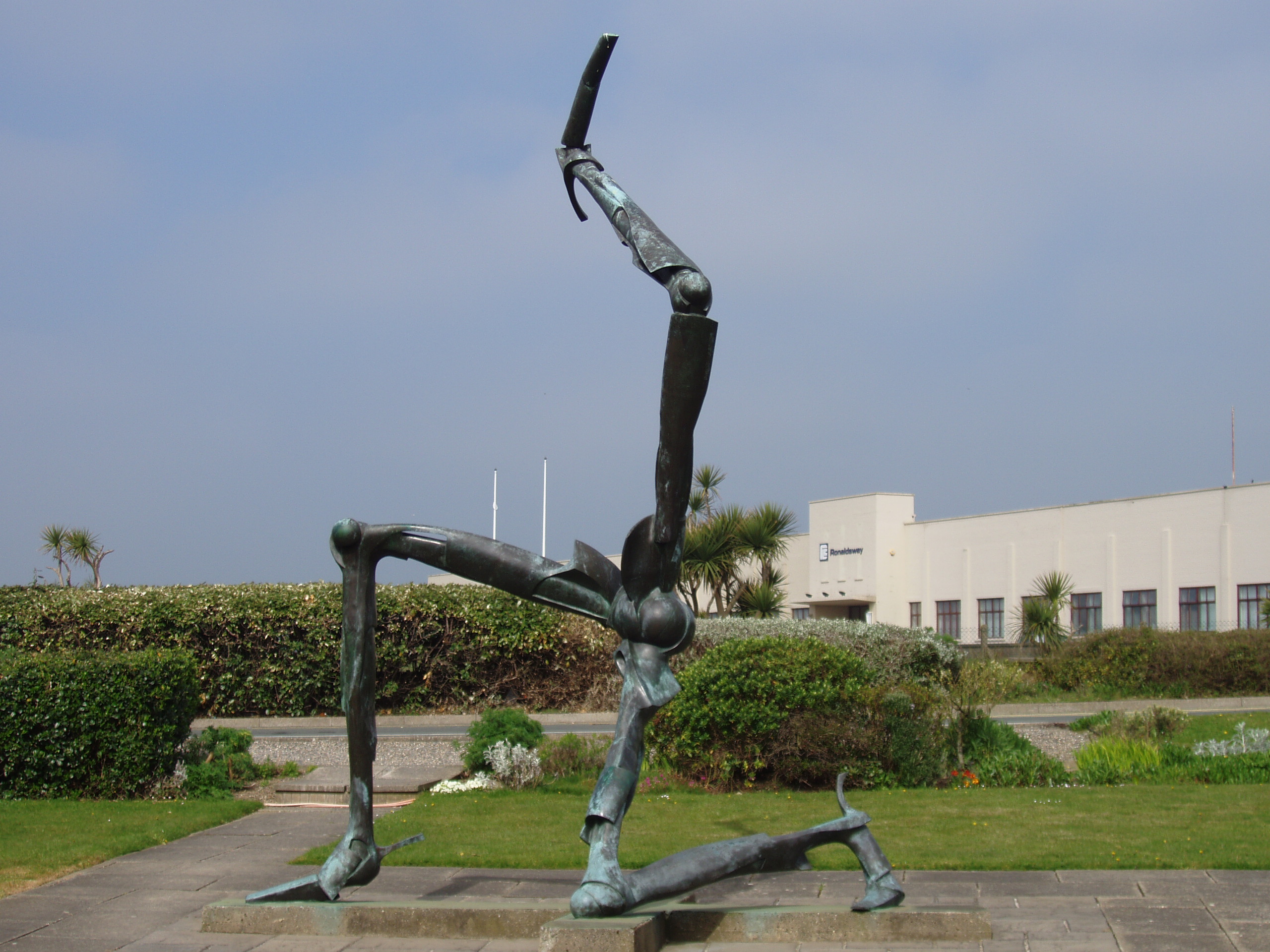 Sculpture built by London resident Bryan Kneale called "The Legs of Man" is seen here in the public area in front of the passenger terminal at Ronaldsway Airport on the Isle of Man, British Isles.